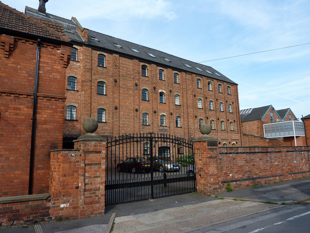 Crown Mill Located just off the High Street in Princess Street. Built late 1847's as a five sail mill.Built for the Lincoln Flour Company and designed by Pearson Bellamy Passed to Henry Le Tall in 1871. Was converted to run under steam power with roller flour mills before being gutted and used as a silo and water tower with LeTalls name distinctly on the top. Now converted into flats. This huge tower dwarfs the surrounding houses and is the second highest in the country after Moulton Mill.